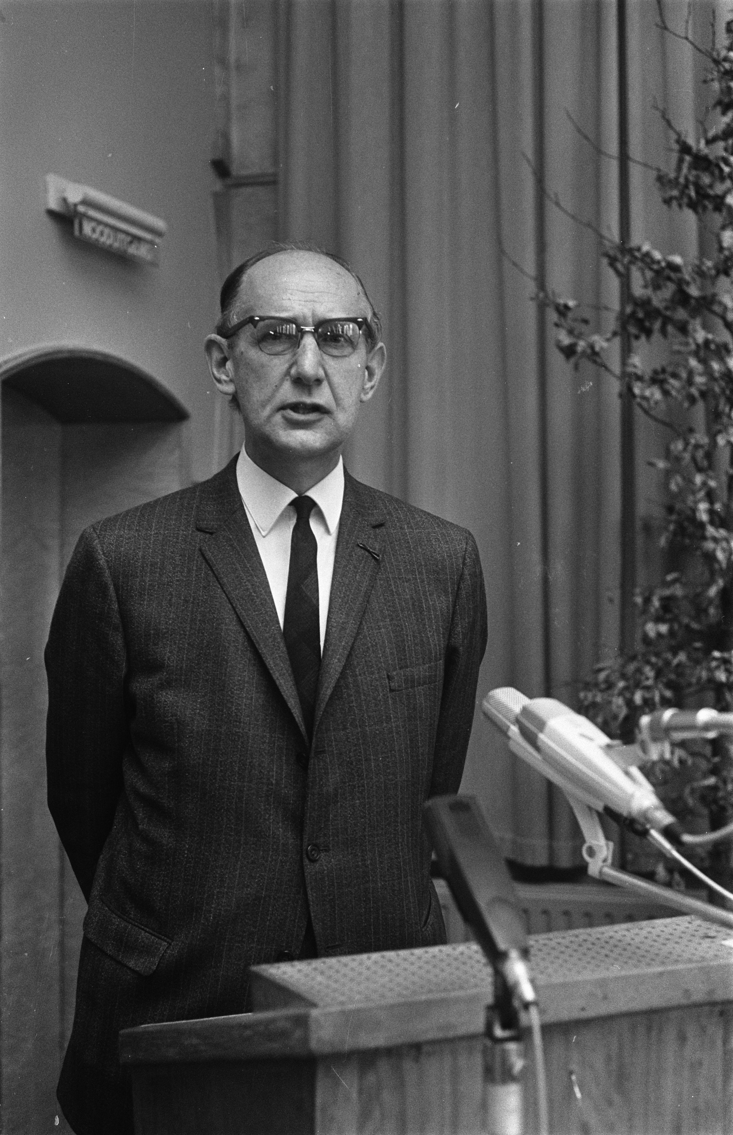 Donald Johan Kuenen, former rector of Leiden University, as director of RIVM Bilthoven (The Netherlands), 2 April 1970